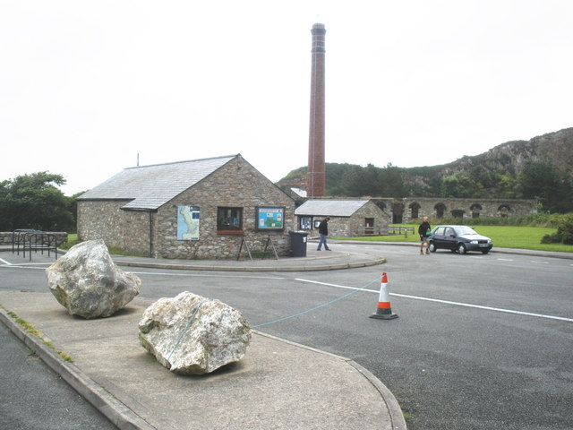 Breakwater Country Park, near Holyhead